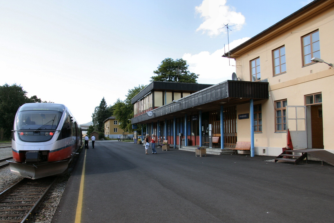 Norges Statsbaner type 93 diesel multiple unit at Åndalsnes Station on Raumabanen.